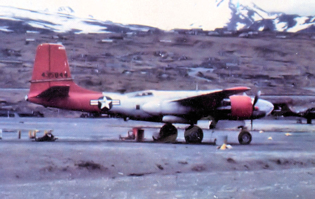 B-26C 44-35844 at Davis AFB, Adak Island, Alaska 1948